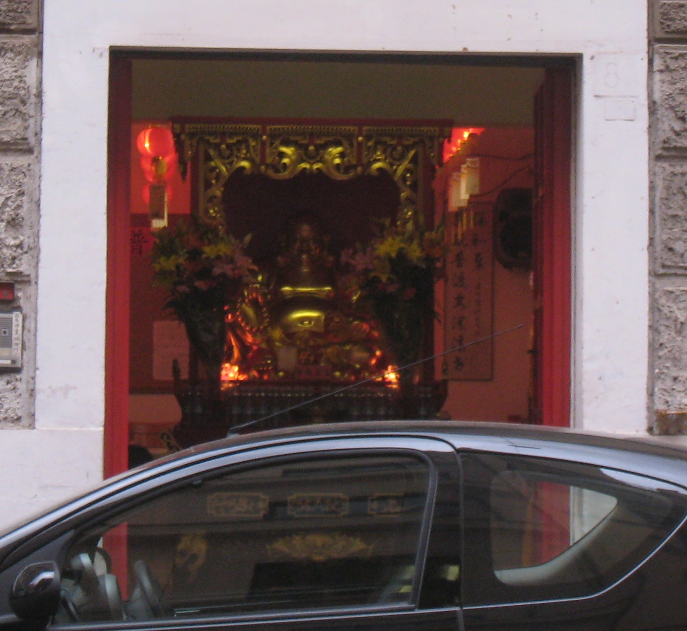 Pu Tuo Shan Temple in Rome